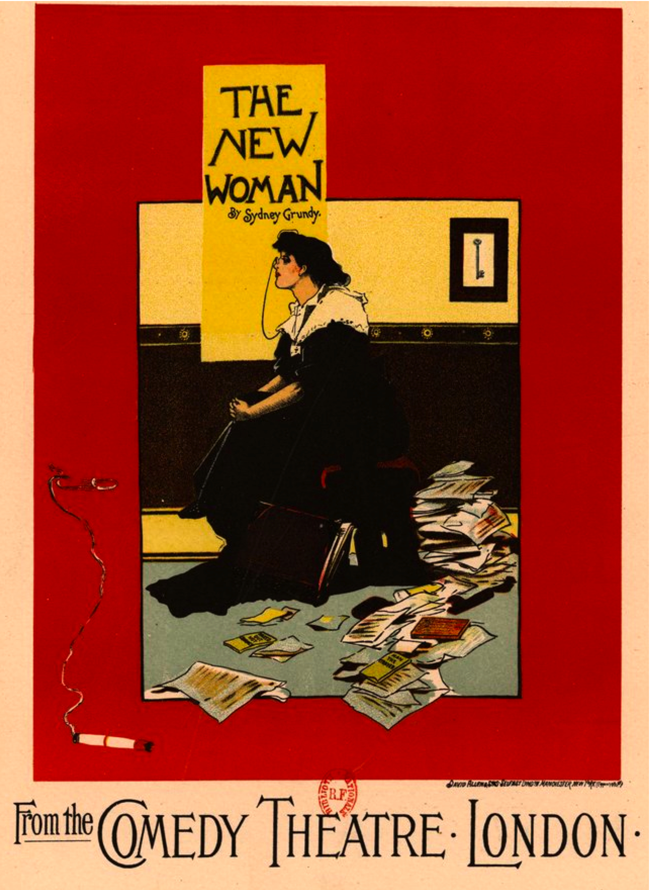 Lithographic fac simile of a poster The New Woman by Sydney Grundy - From the Comedy Theatre London designed by Albert Morrow (printed in Manchester ?).